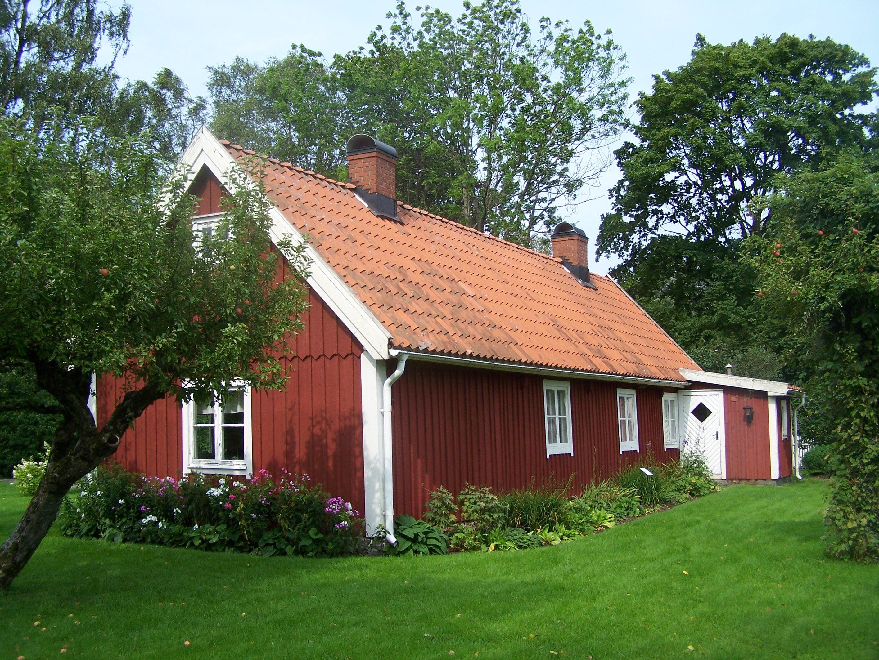 Fågelboet, the birth place of August Bondeson